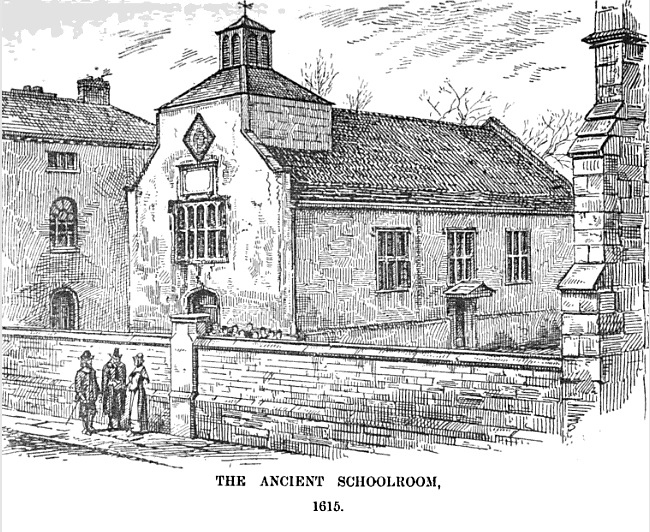 Monmouth School in Monmouth, Monmouthshire, Wales, 1615